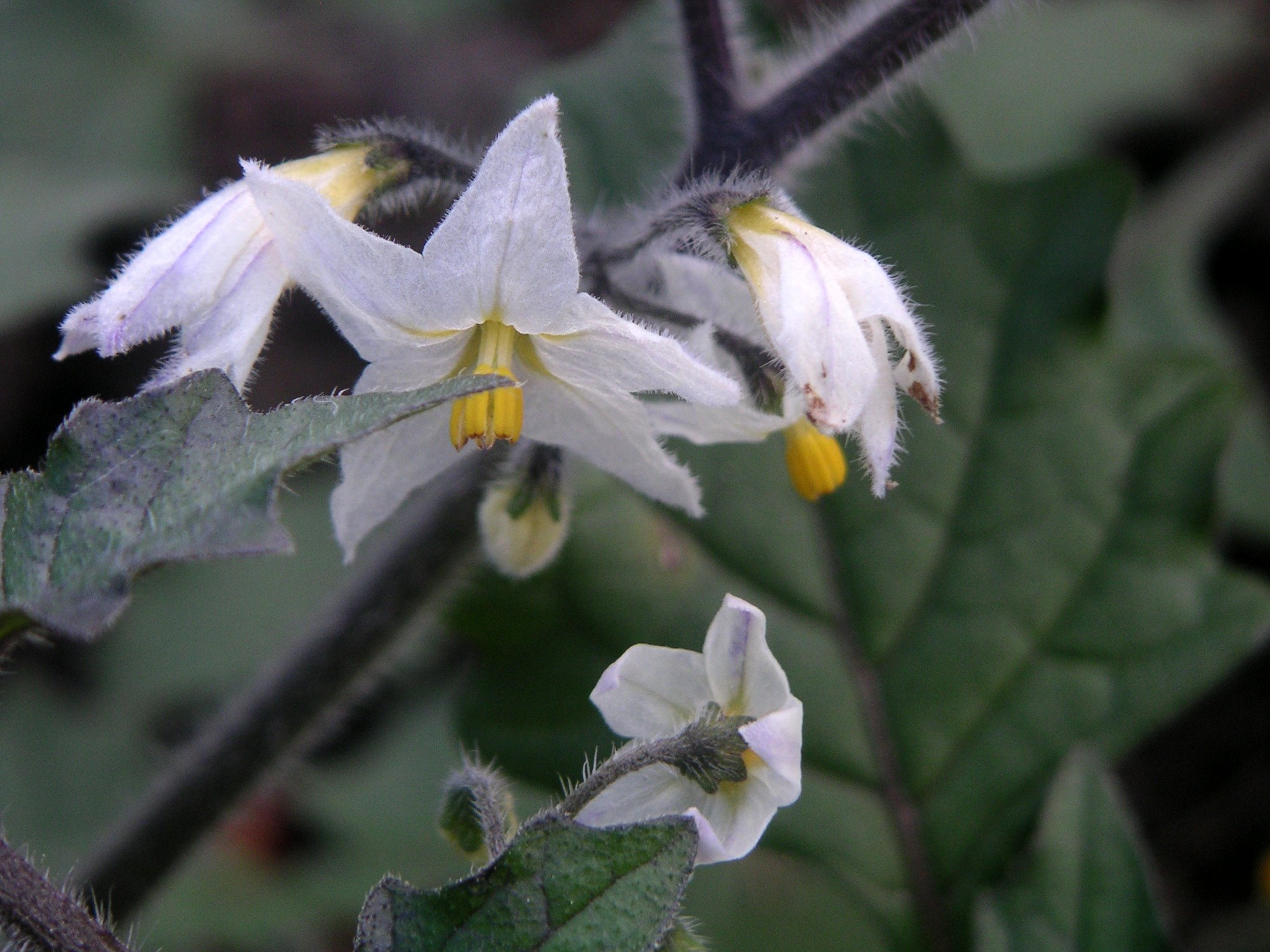 Flowers of Solanum villosum (as Solanum latua) at Botanical Garden Krefeld, Germany.